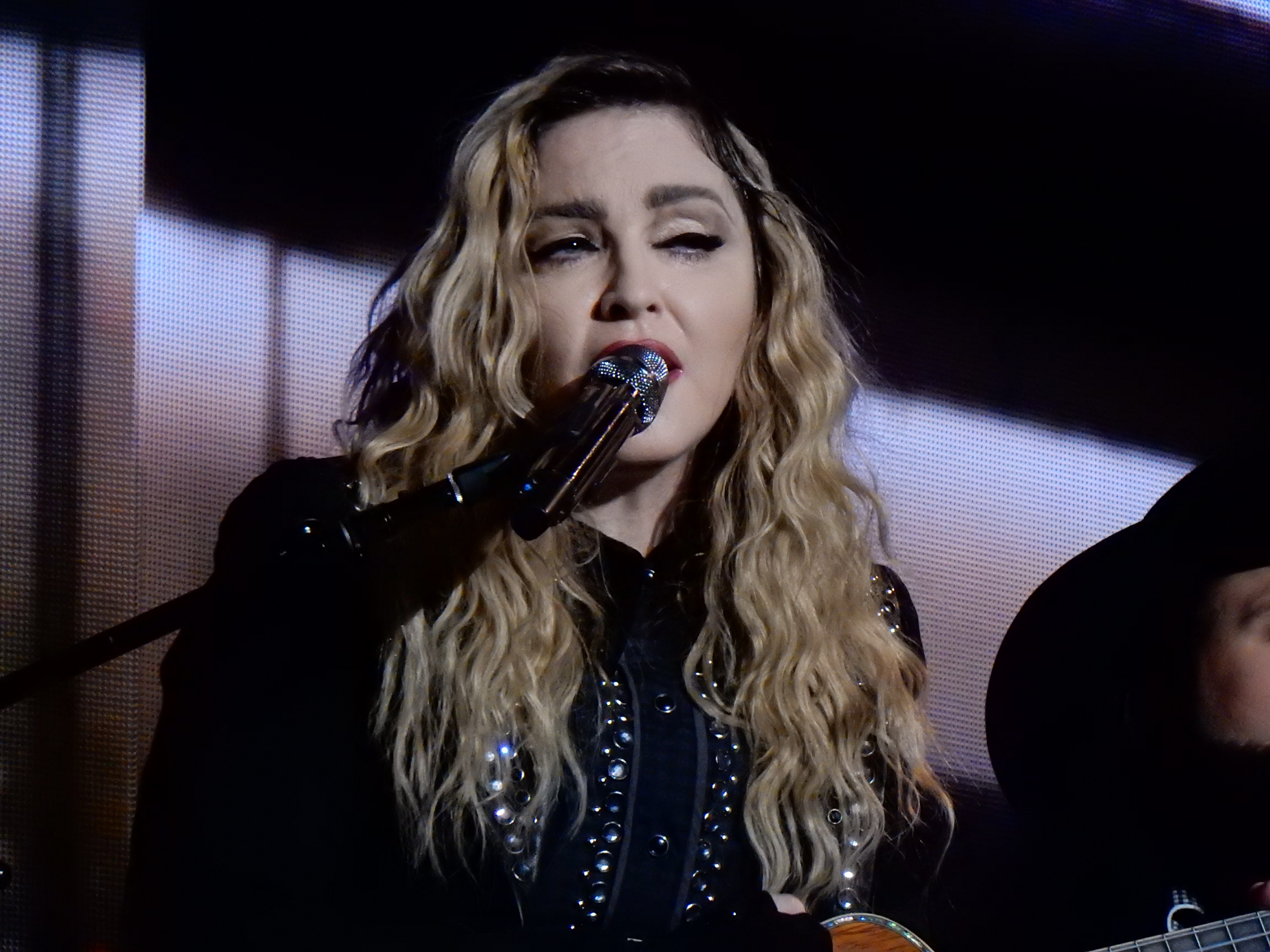 Rebel Heart tour 2016 - Melbourne 1